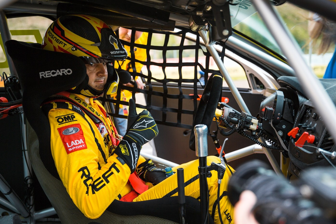 Nezvankin, Lada Vesta 1.6 T, Kazan, 2017